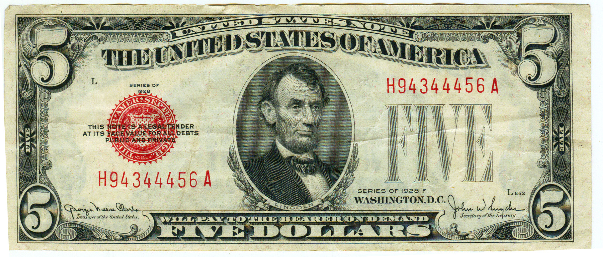 5 Dollar Bill, 1928 F Series